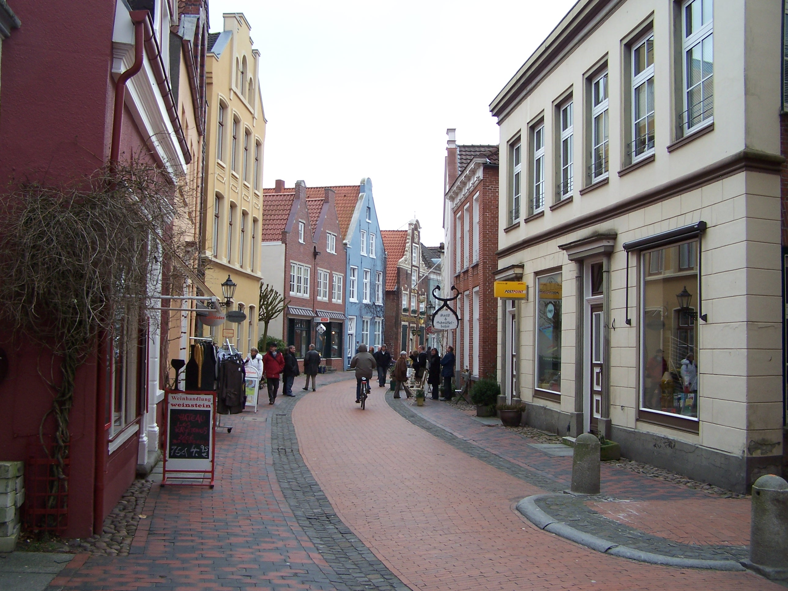 House in Leer, Germany